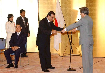 Jun'ichirō Koizumi, Prime Minister, awarded a certificate of commendation to Carlos Ghosn, Chief Executive Officer of Nissan Motor Co., Ltd., and Hiroshi Okuda, Chairman of Toyota Motor Corporation, at the Prime Minister's Official Residence in Chiyoda Ward, Tōkyō Metropolis on October 16, 2002.